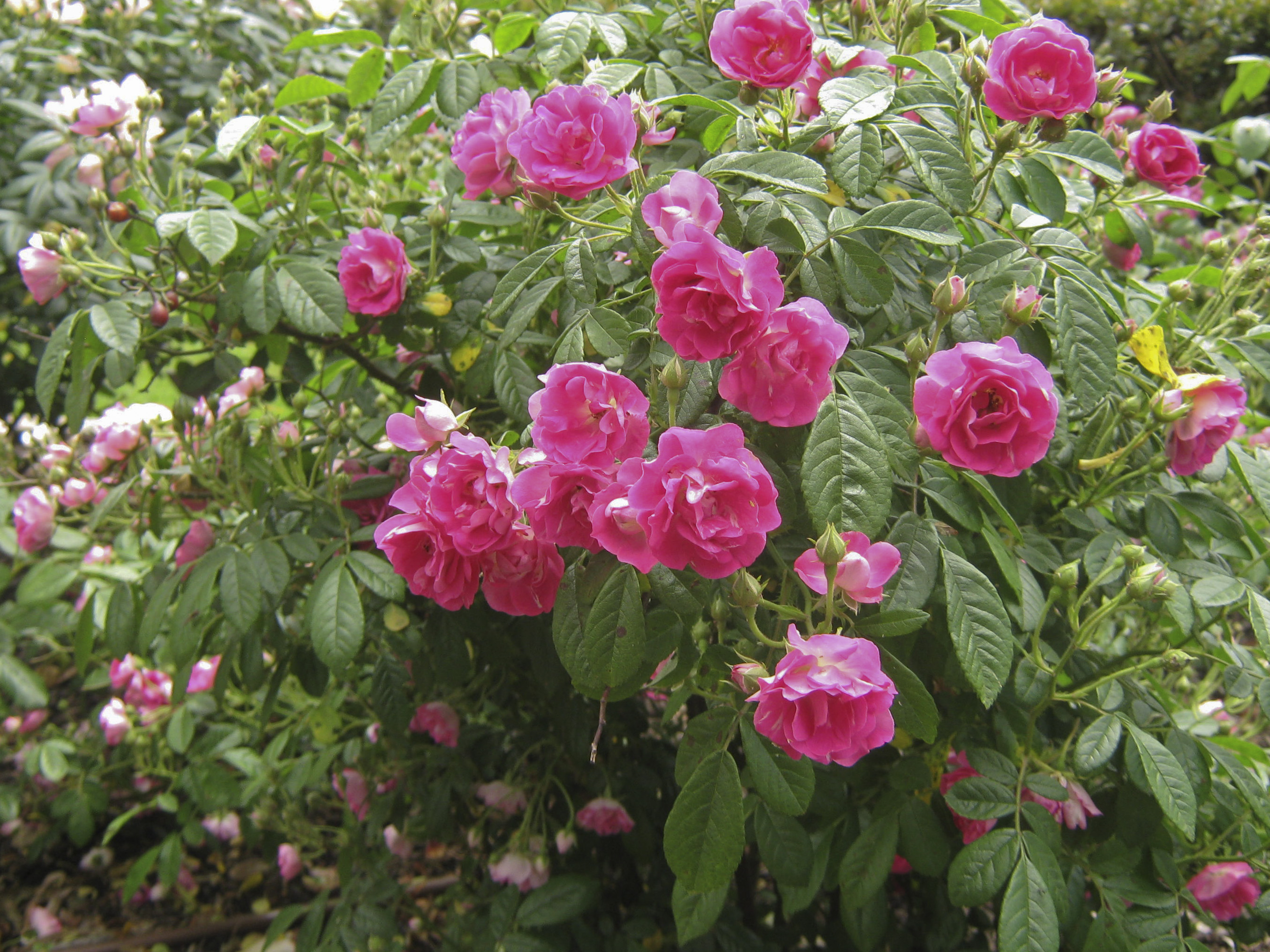 Rose 'Spring Song' 1954 by Riethmuller; photographed in the Centenary Rose Garden, Morwell, Victoria